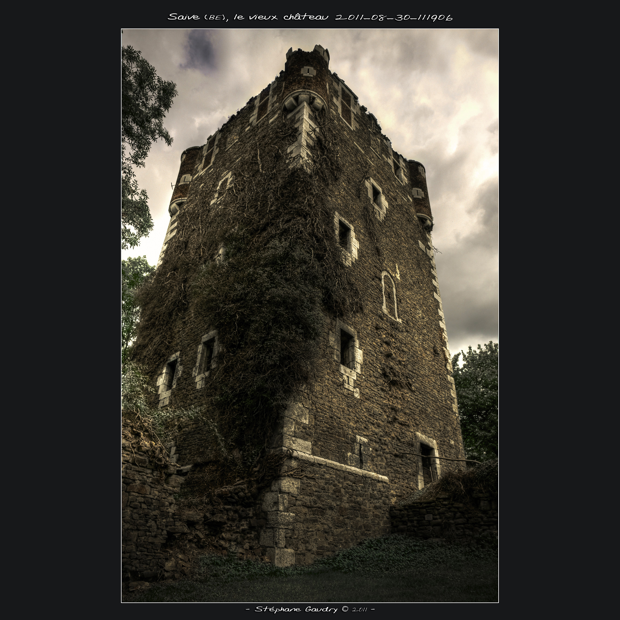 Castle in Saive.